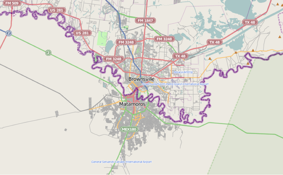 Map of Matamoros–Brownsvillle (primary urban area).